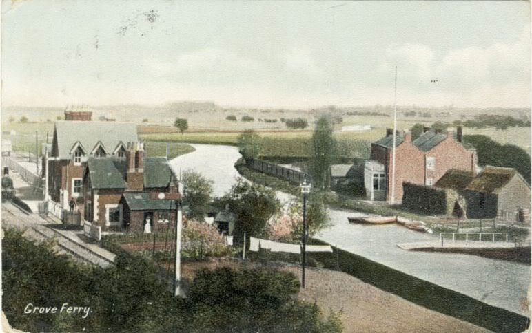 Pre-1907 tinted postcard of Grove Ferry and Upstreet Railway Station in Kent, England, built 1846, closed 1966, and superceded by a bus route across the river. This work is in the public domain in its country of origin and other countries and areas where the copyright term is the author's life plus 70 years or less. You must also include a United States public domain tag to indicate why this work is in the public domain in the United States. Note that a few countries have copyright terms longer than 70 years: Mexico has 100 years, Colombia has 80 years, and Guatemala and Samoa have 75 years. This image may not be in the public domain in these countries, which moreover do not implement the rule of the shorter term. Côte d'Ivoire has a general copyright term of 99 years and Honduras has 75 years, but they do implement the rule of the shorter term. Copyright may extend on works created by French who died for France in World War II (more information), Russians who served in the Eastern Front of World War II (known as the Great Patriotic War in Russia) and posthumously rehabilitated victims of Soviet repressions (more information). This file has been identified as being free of known restrictions under copyright law, including all related and neighboring rights.